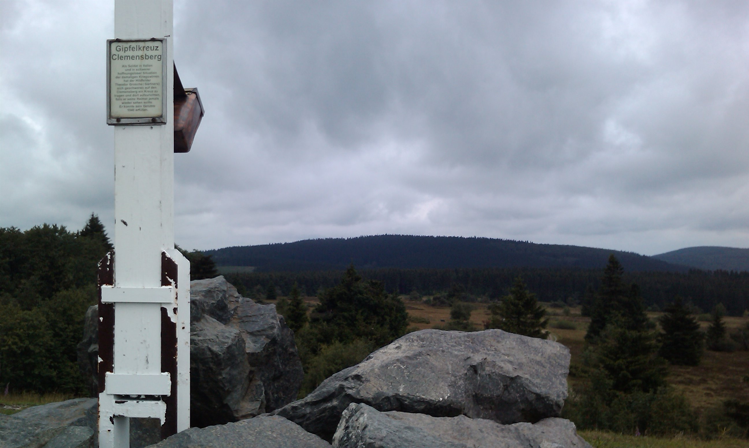 The Langenberg, with 843m the highest peak of the Rothaargebirge mountain range, is viewed from the Clemensberg (839m). Between the two peaks, the Hocheide is visible and, in the foreground, the base of the Clemensberg summit cross.